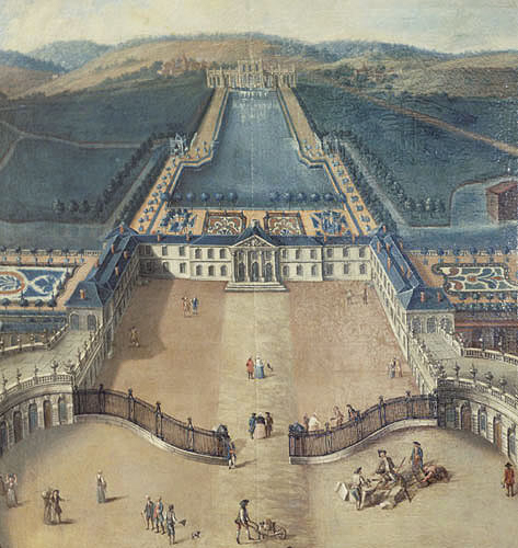 Château de Commercy, painting formerly in the museum of Lunéville